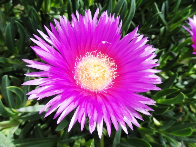 Fiore di Carpobrotus aaaaa